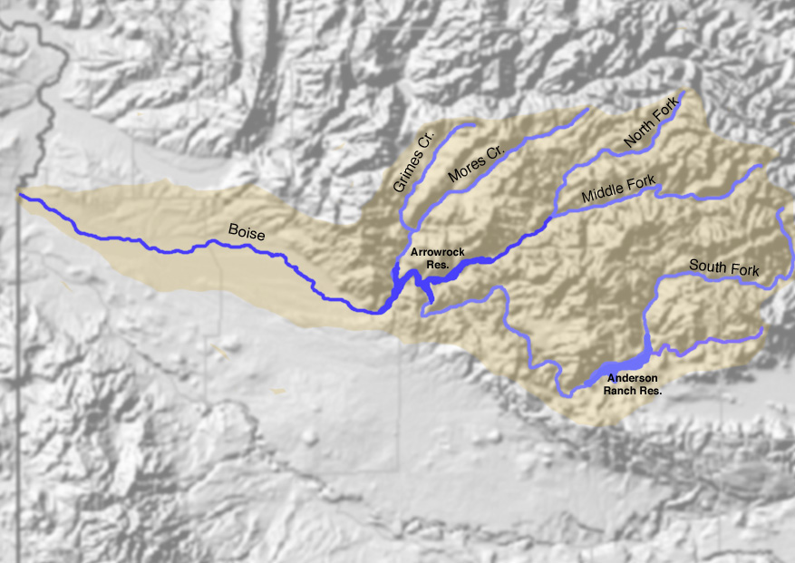 Map of the Boise River watershed, a tributary of the Snake River, Idaho, USA